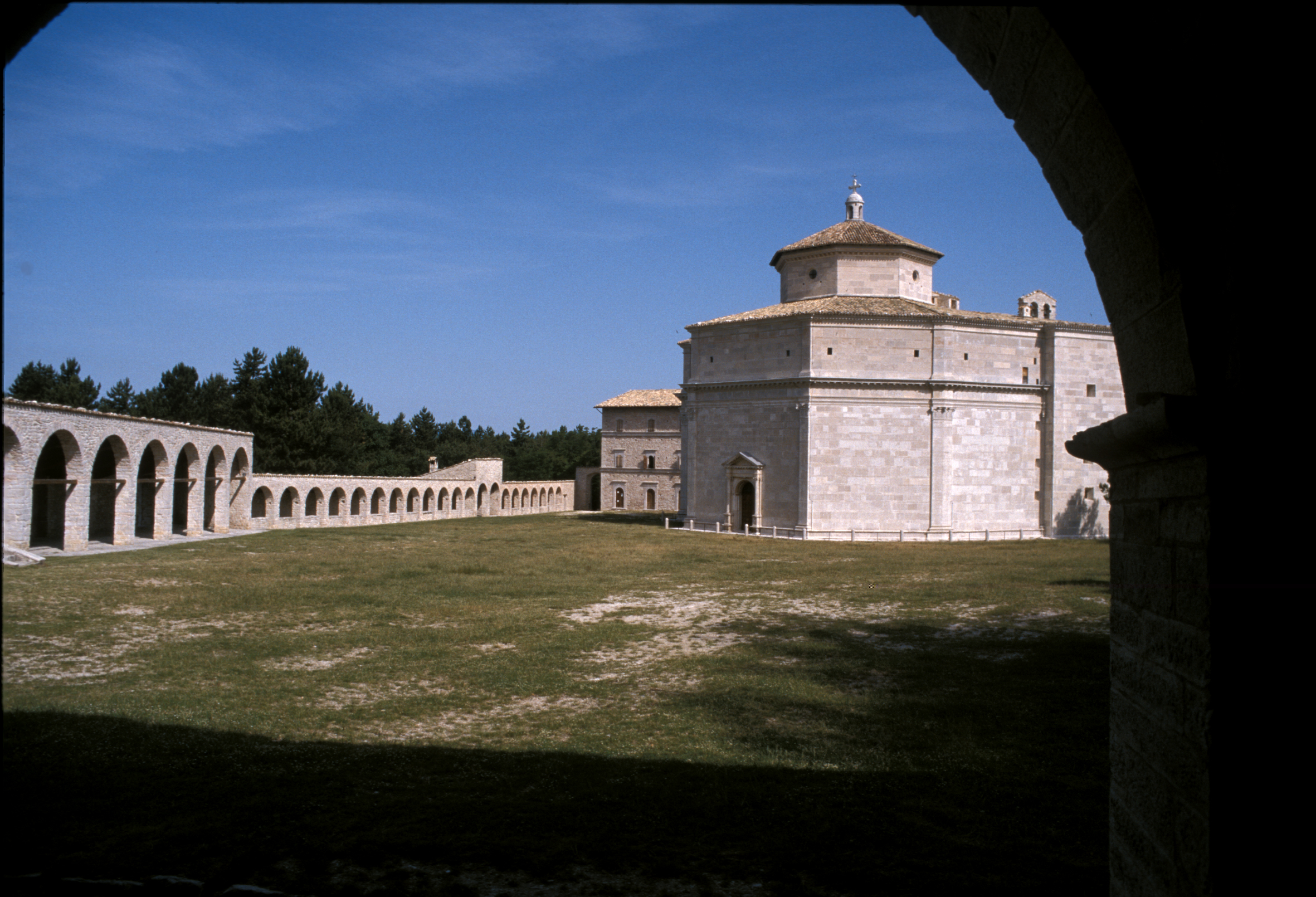 interior of Courtyard around Sanctuary of Macereto